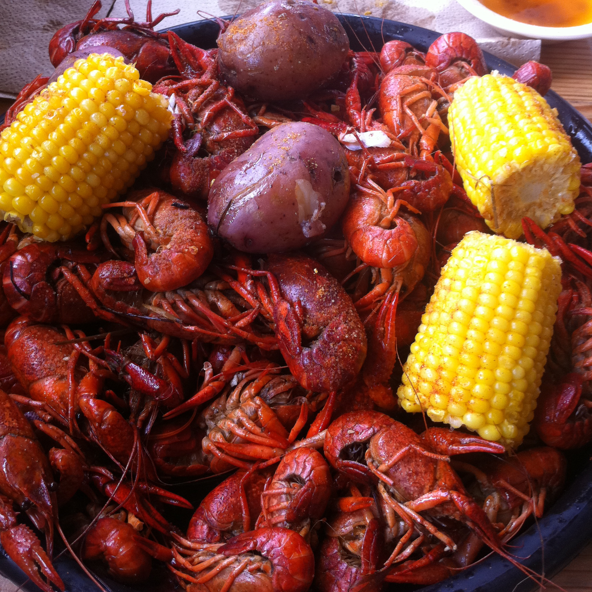 Assorted boiled crawfish, potatoes and corn